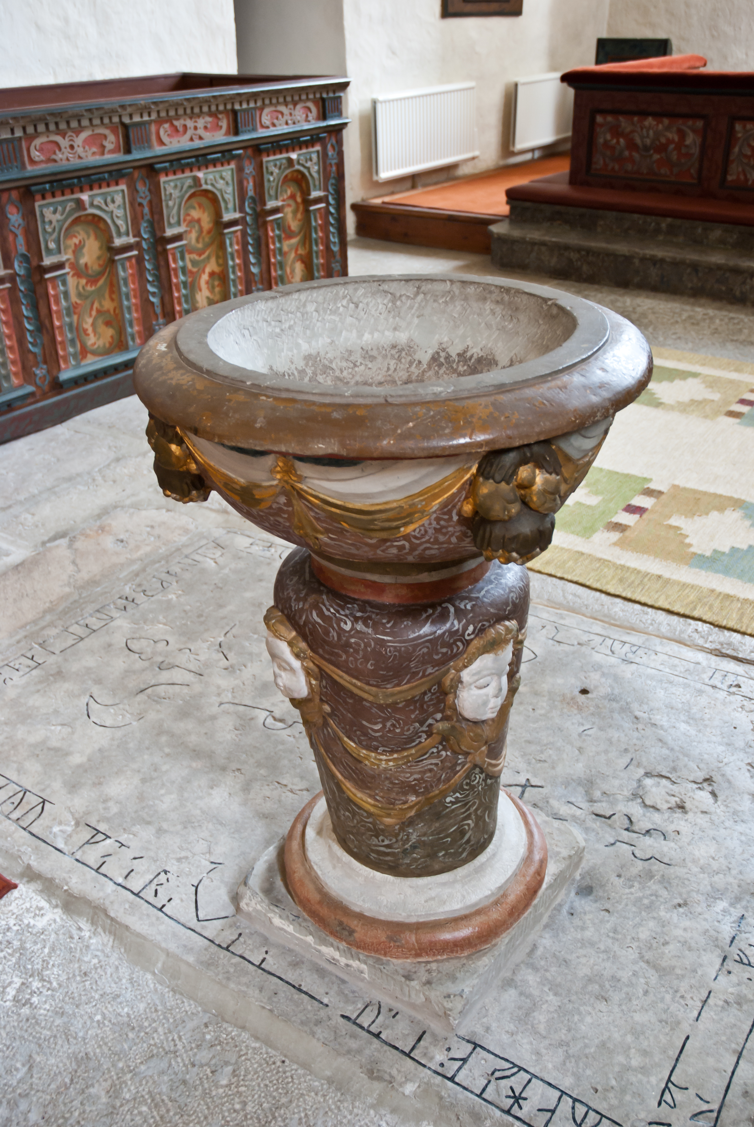 Baptismal font in Hellvi church on Gotland.